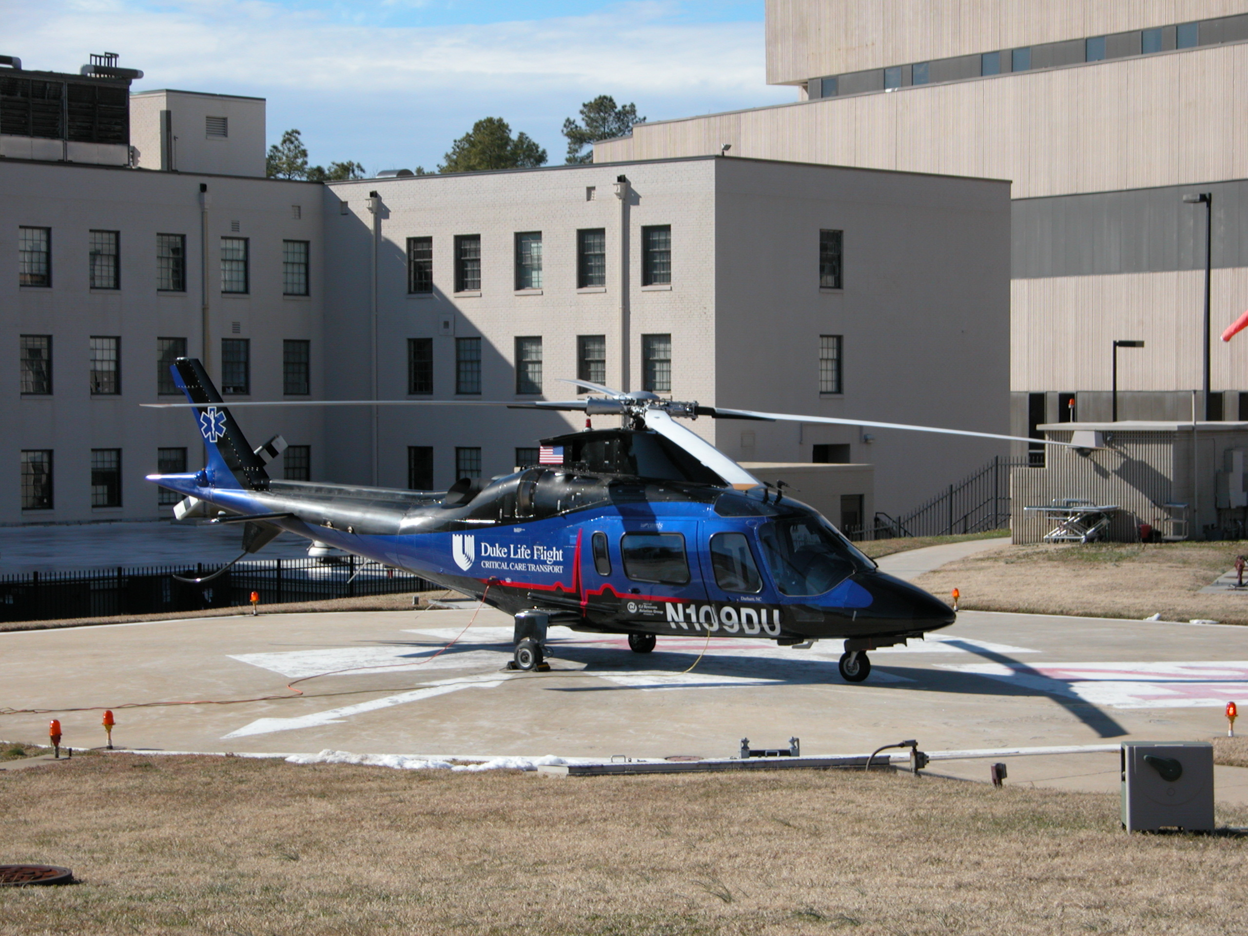 Duke Life Flight helicopter N109DU on the helipad at Duke University in Durham, North Carolina.